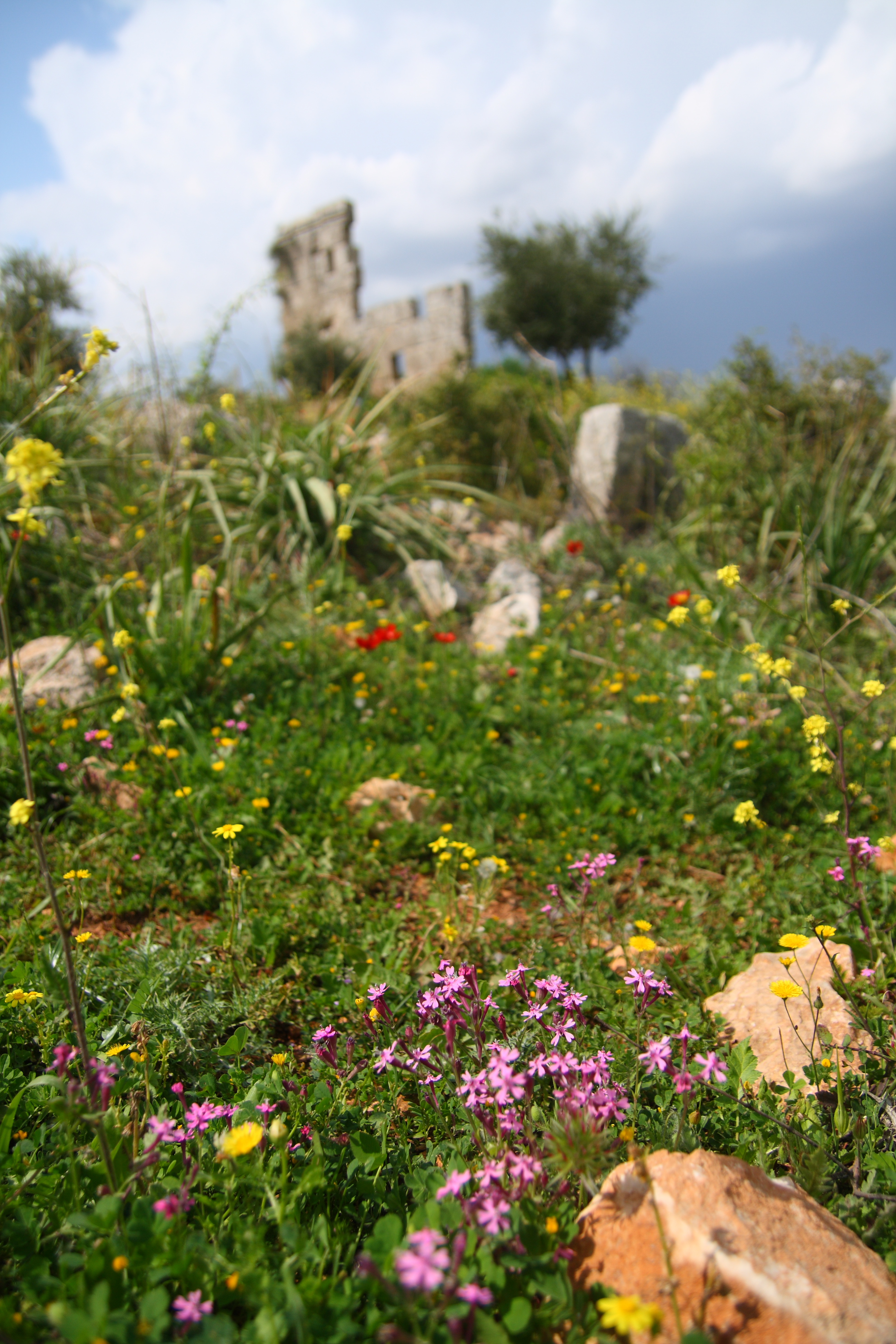 More ruins in Syria, these ones from the far North West of the country.